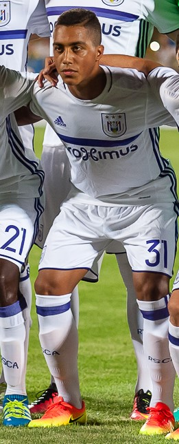 Youri Tielemans